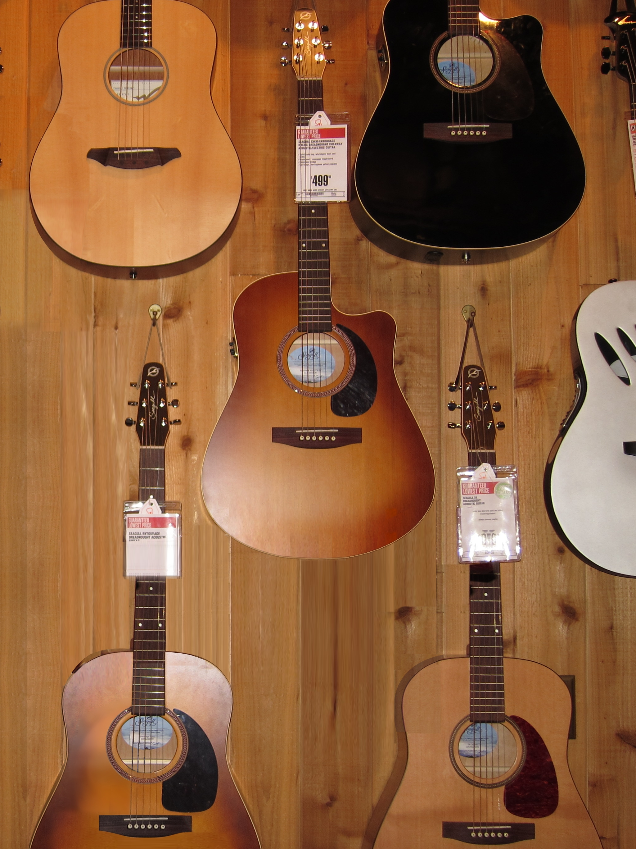 Seagull guitars on the wall